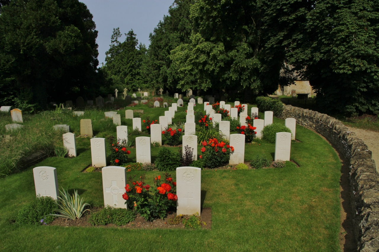 Commonwealth War Graves section in St Mary the Virgin's parish churchyard, Black Bourton, Oxfordshire